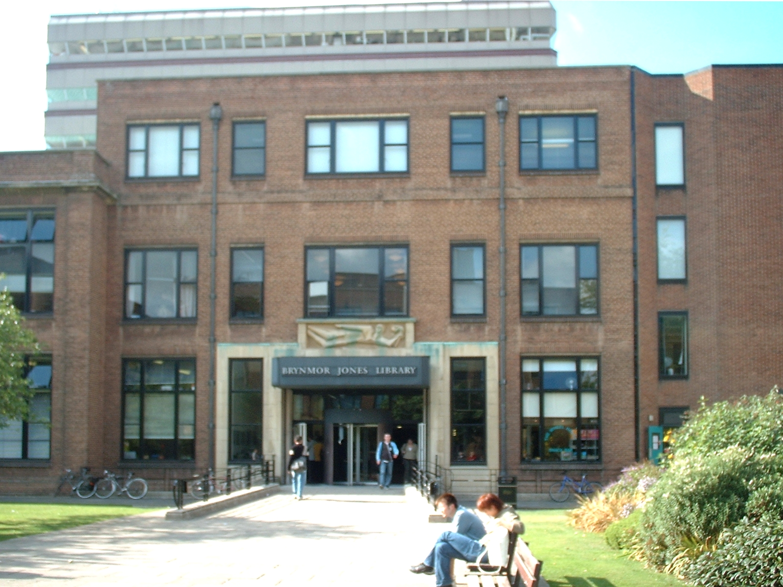 Brynmor Jones Library, the Hull university library, photo 2003